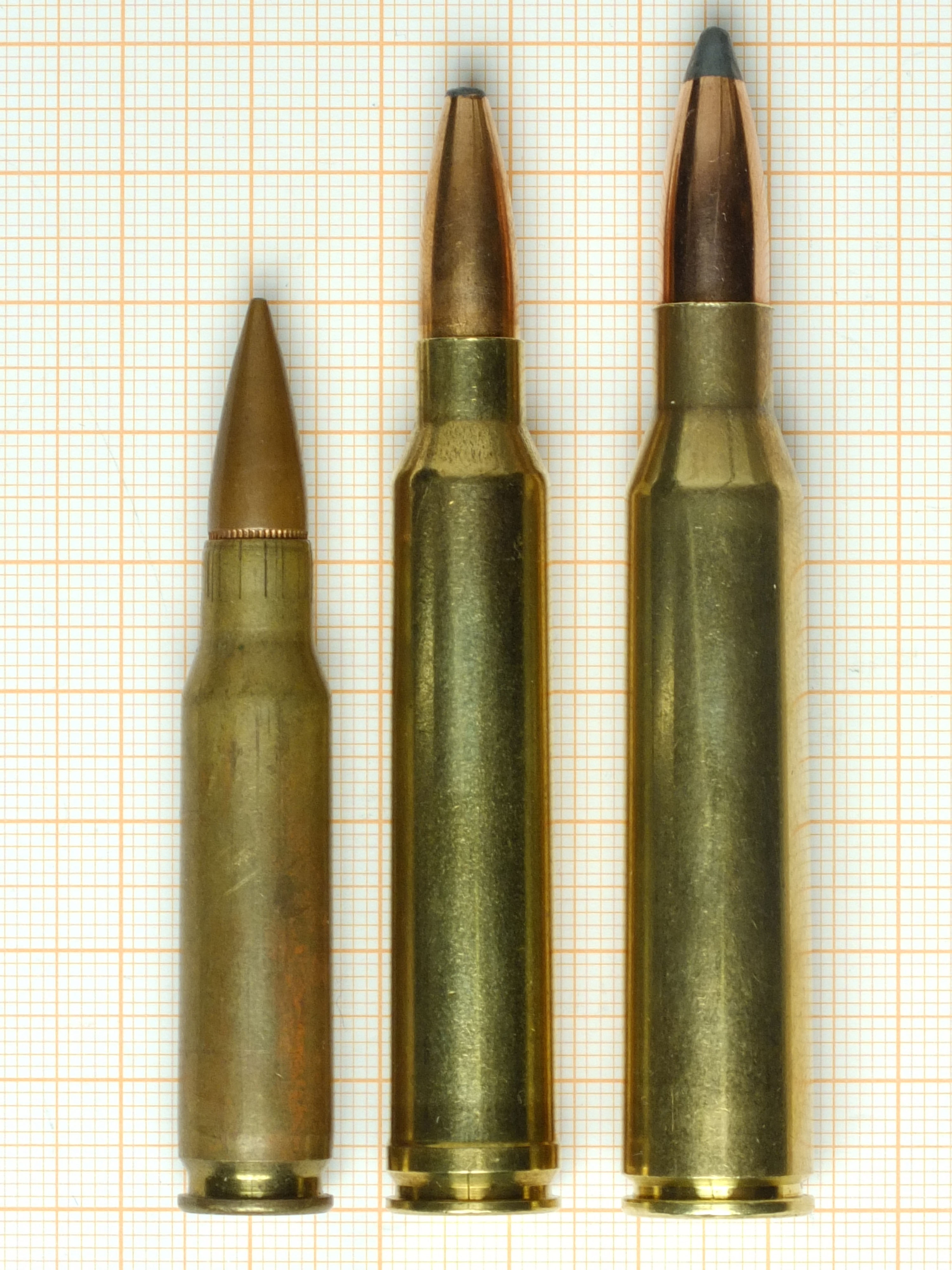 Cartridges 7.62x51mm NATO, .300 Winchester, .338 Lapua